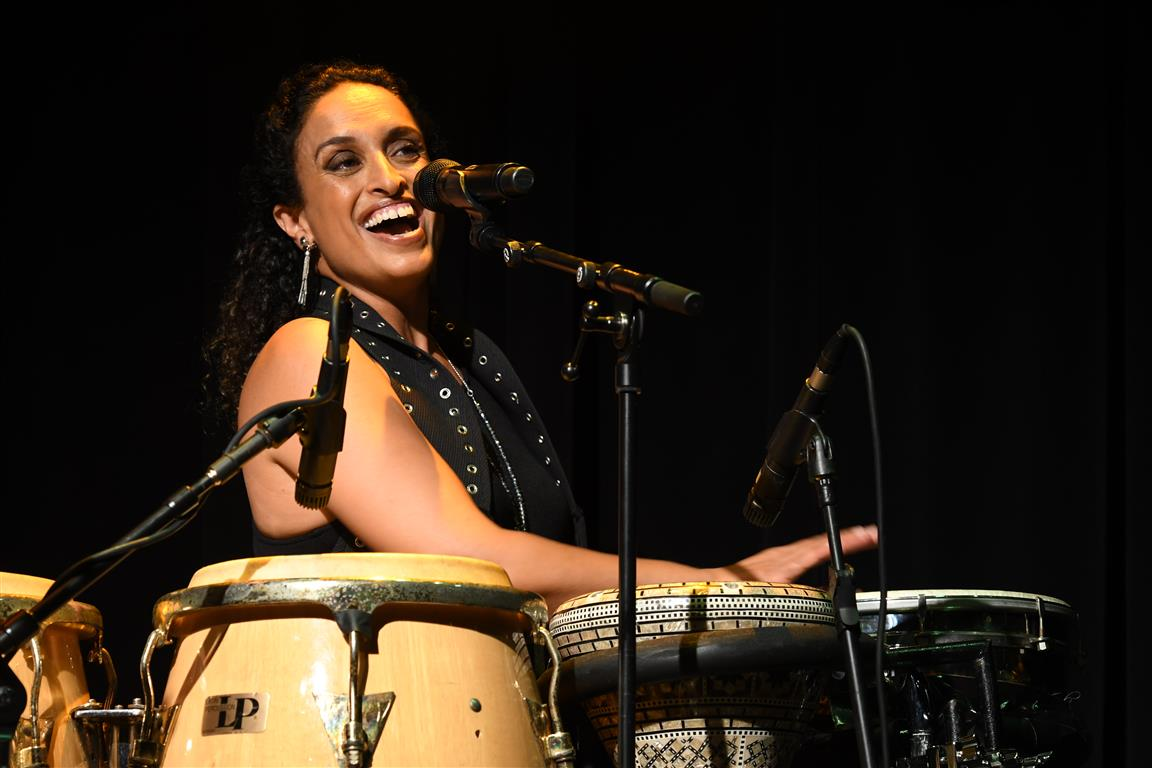 Noa performs at the Zappa Club, Herzeliya, October 2018. Photo by Michel Braunstein. With thanks to the Achinoam Nini private archive.